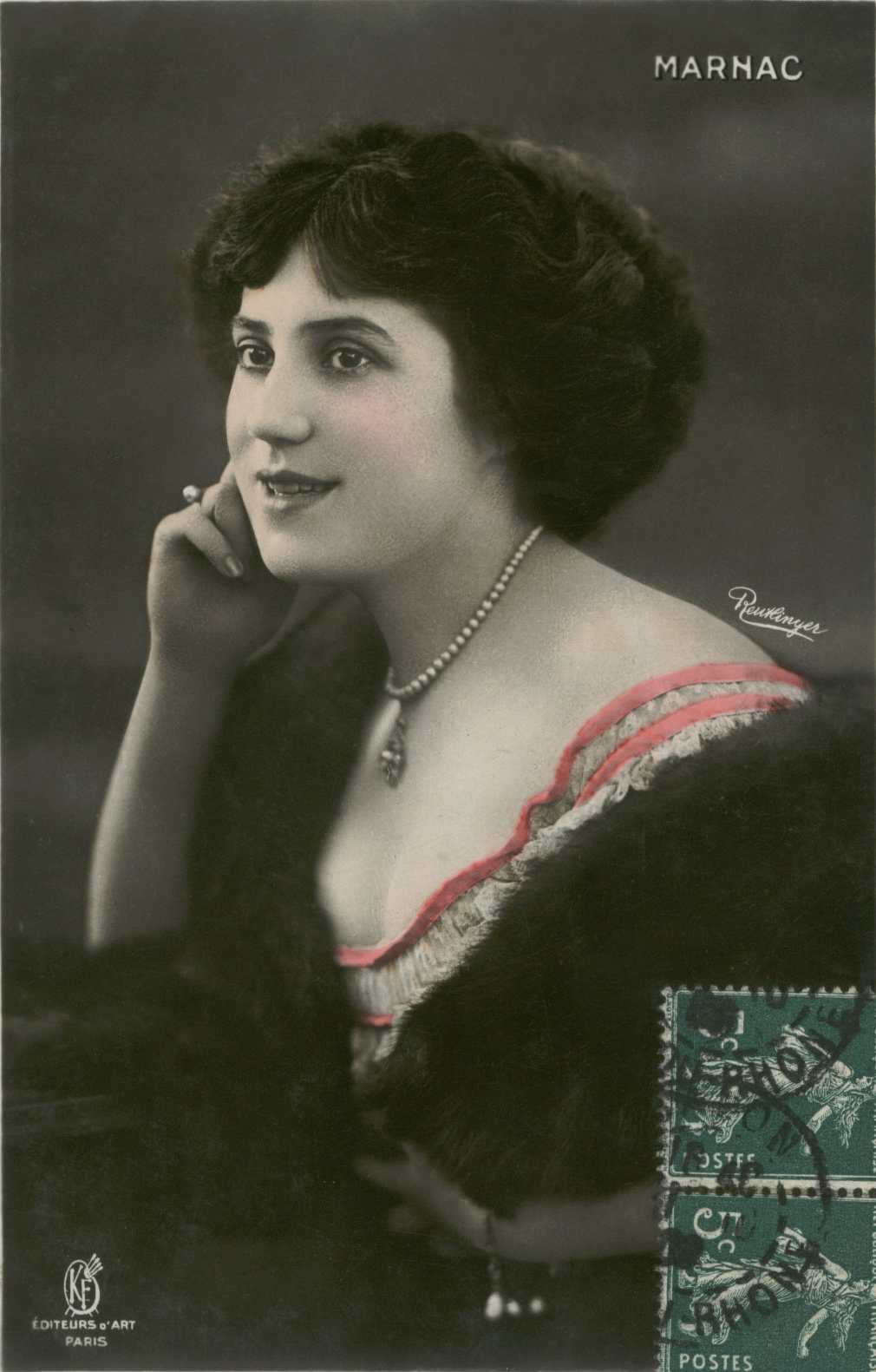 Jane Marnac. Photo Reutlinger, restored.